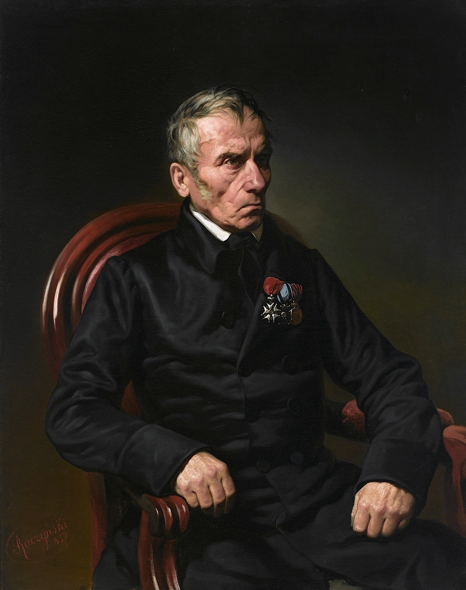 General Maciej Rybiński by Antoni Raczyński